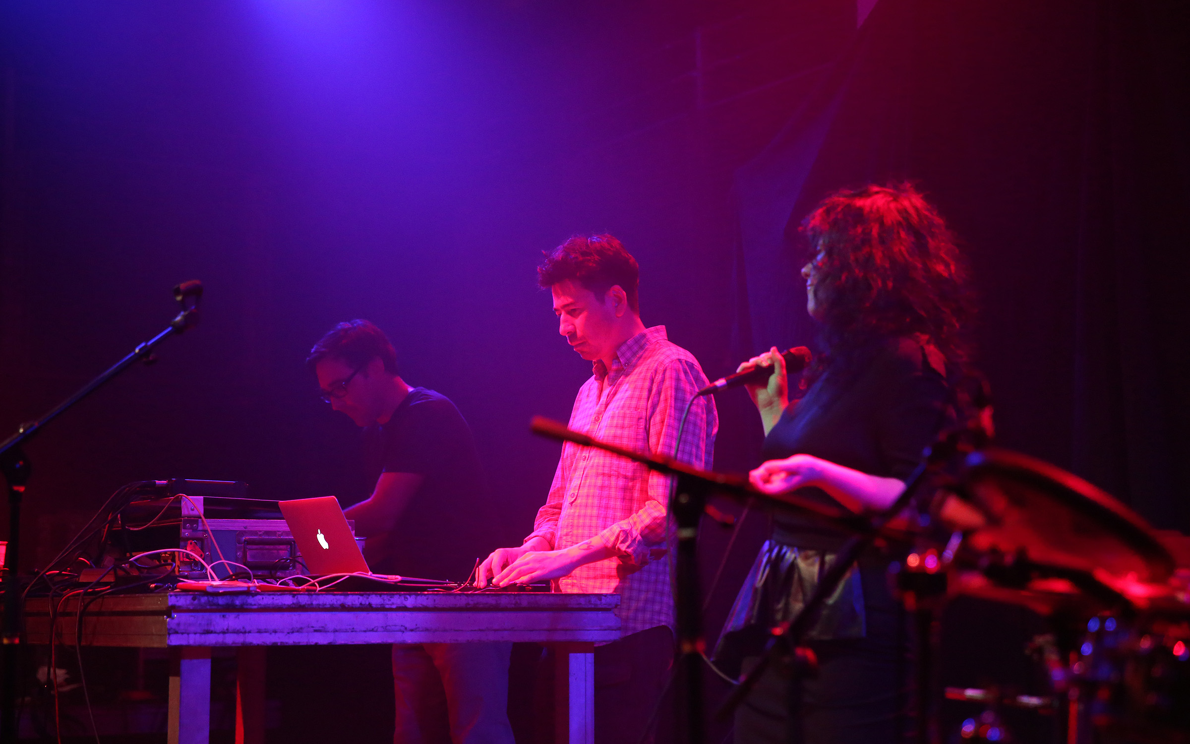 Ghost Capsules (with Tim Simenon), concert at brut im Künstlerhaus during Popfest 2013 in Vienna, Austria.